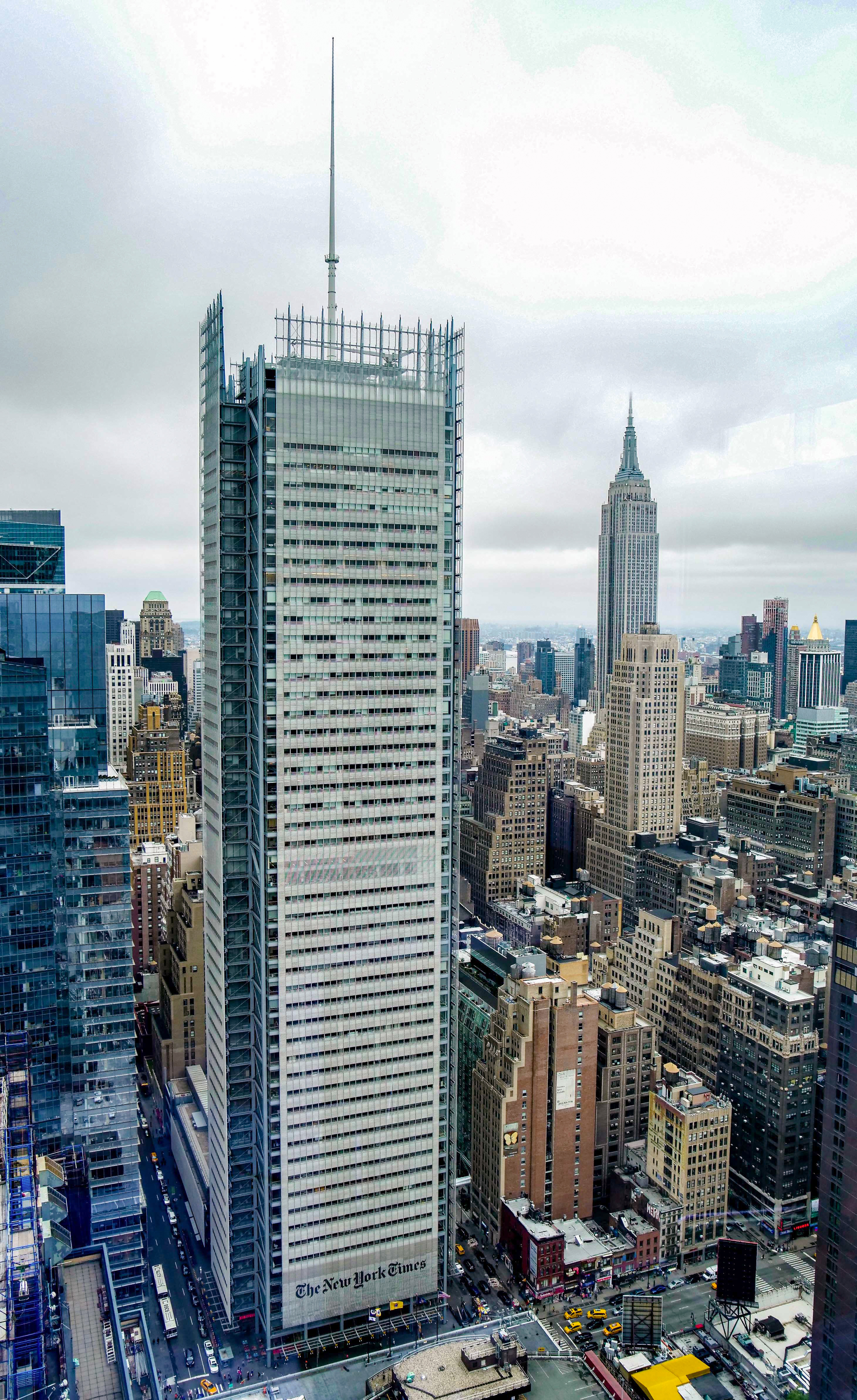 The New York Times Building with the Empire State Building in the background